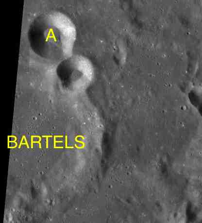 Part of the chart LAC-37 used for the presentation